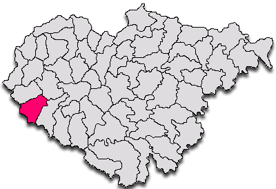 Map Salaj County Romania